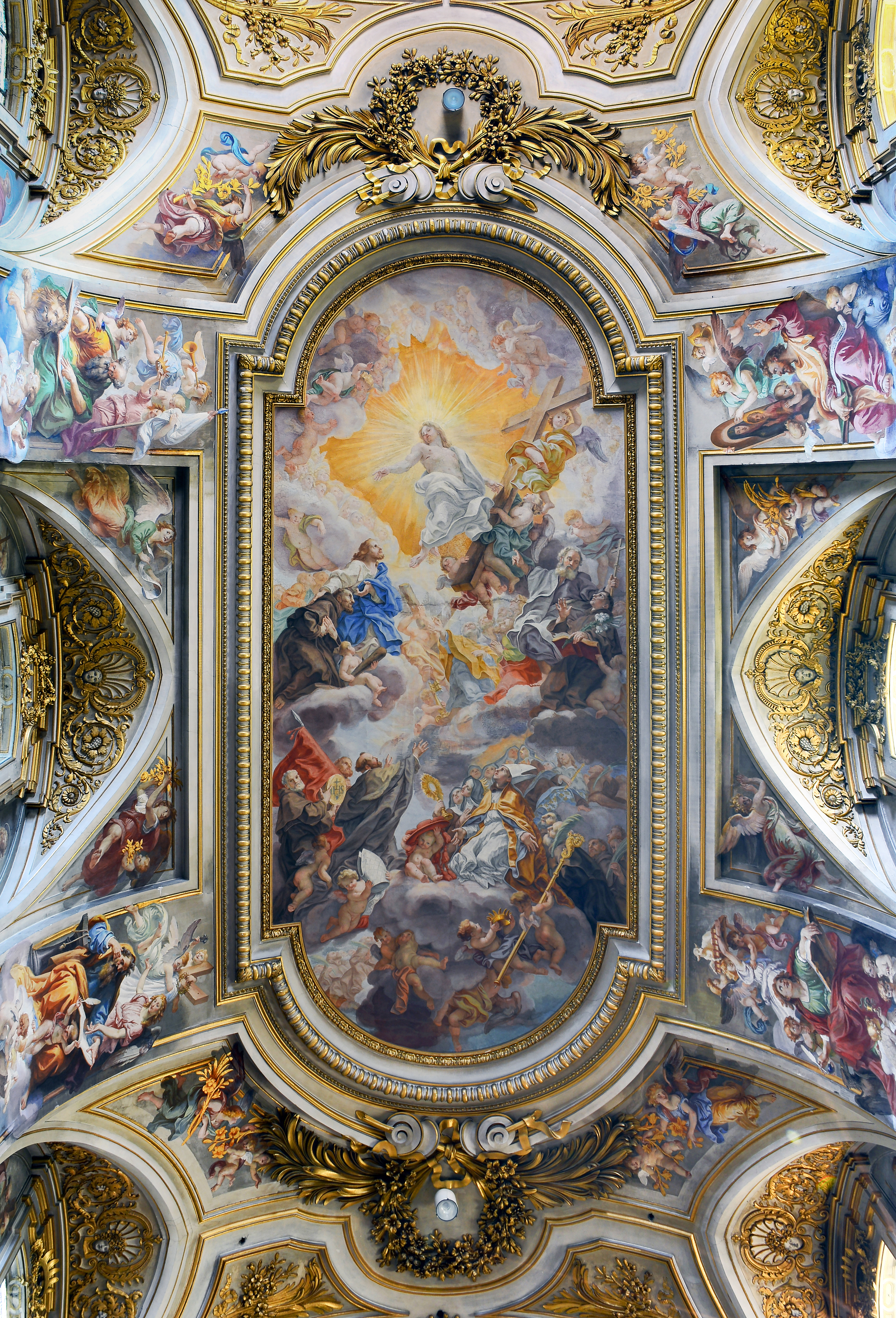 Basilica dei Santi Apostoli (Rome) - Ceiling